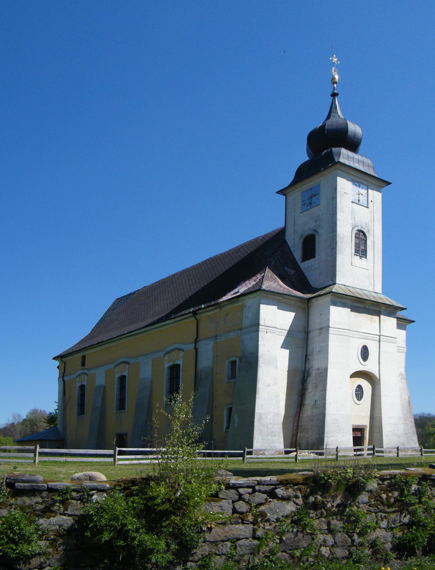 A church in Lobendava, Czech Republic viewed from northeast.